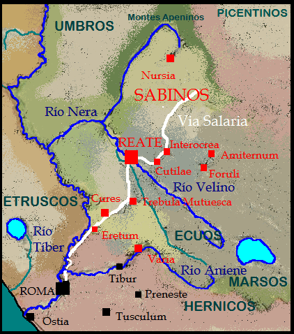 Main Sabine settlements in red.